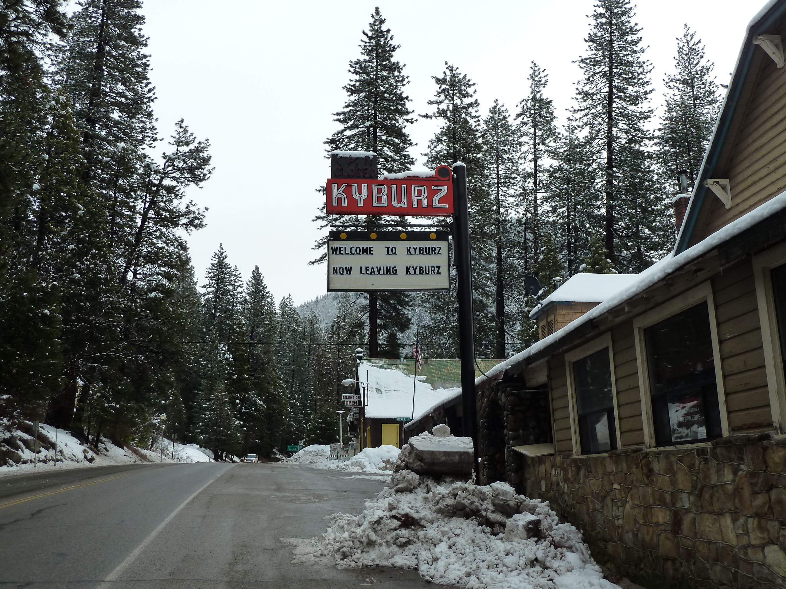 Kyburz, California, looking east on US 50